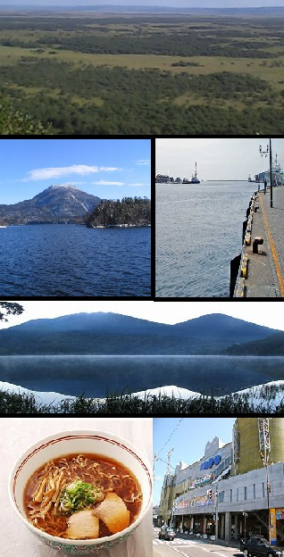 Kushiro montages